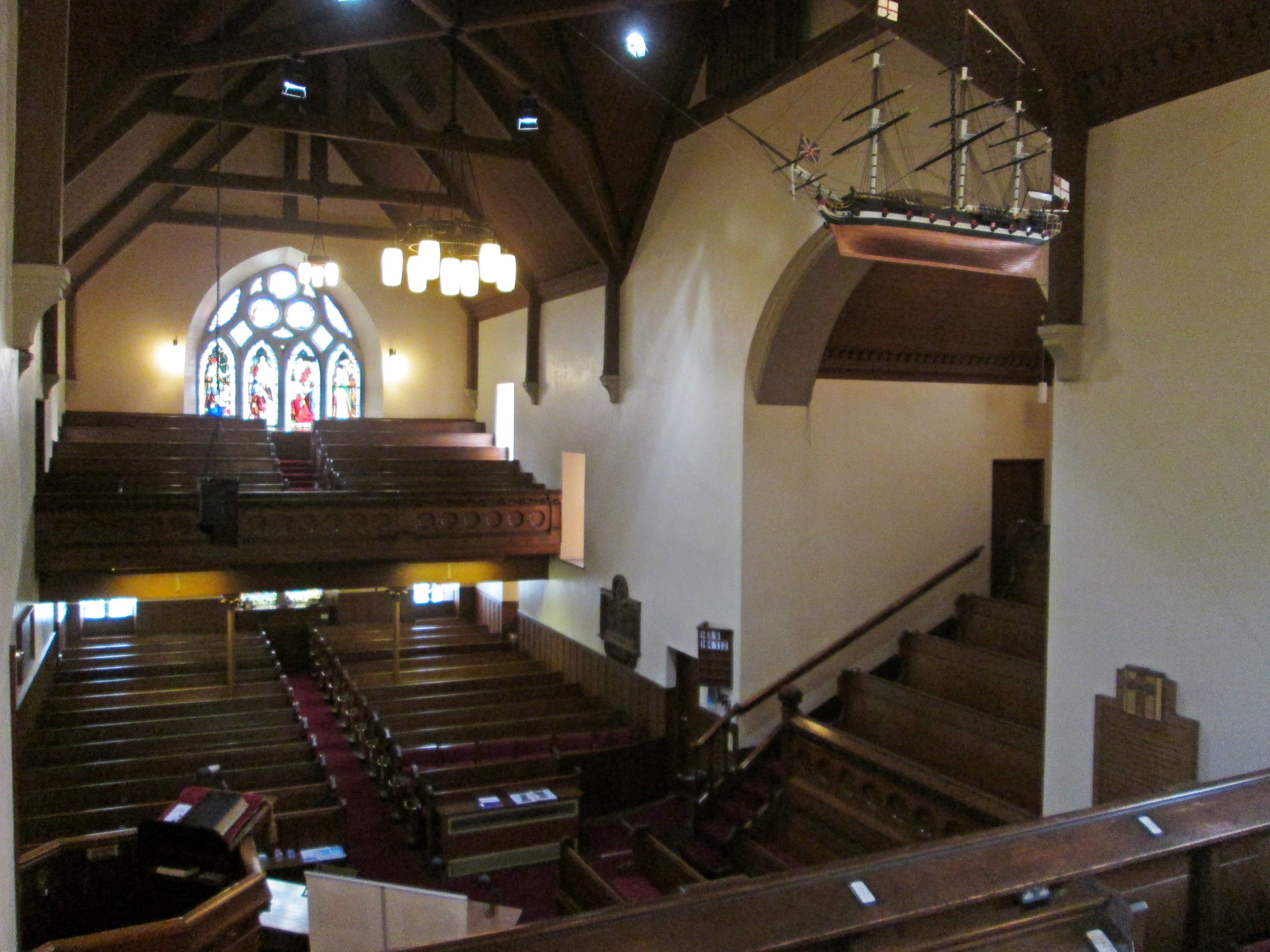 The Old West Kirk in Greenock, view from the Sailor's Loft looking up the main body of the kirk to the Farmer's Gallery, with the Laird's Loft to the right. A scale model of a 20-gun frigate is suspended above the Sailor's loft, the pulpit is visible down to the left.